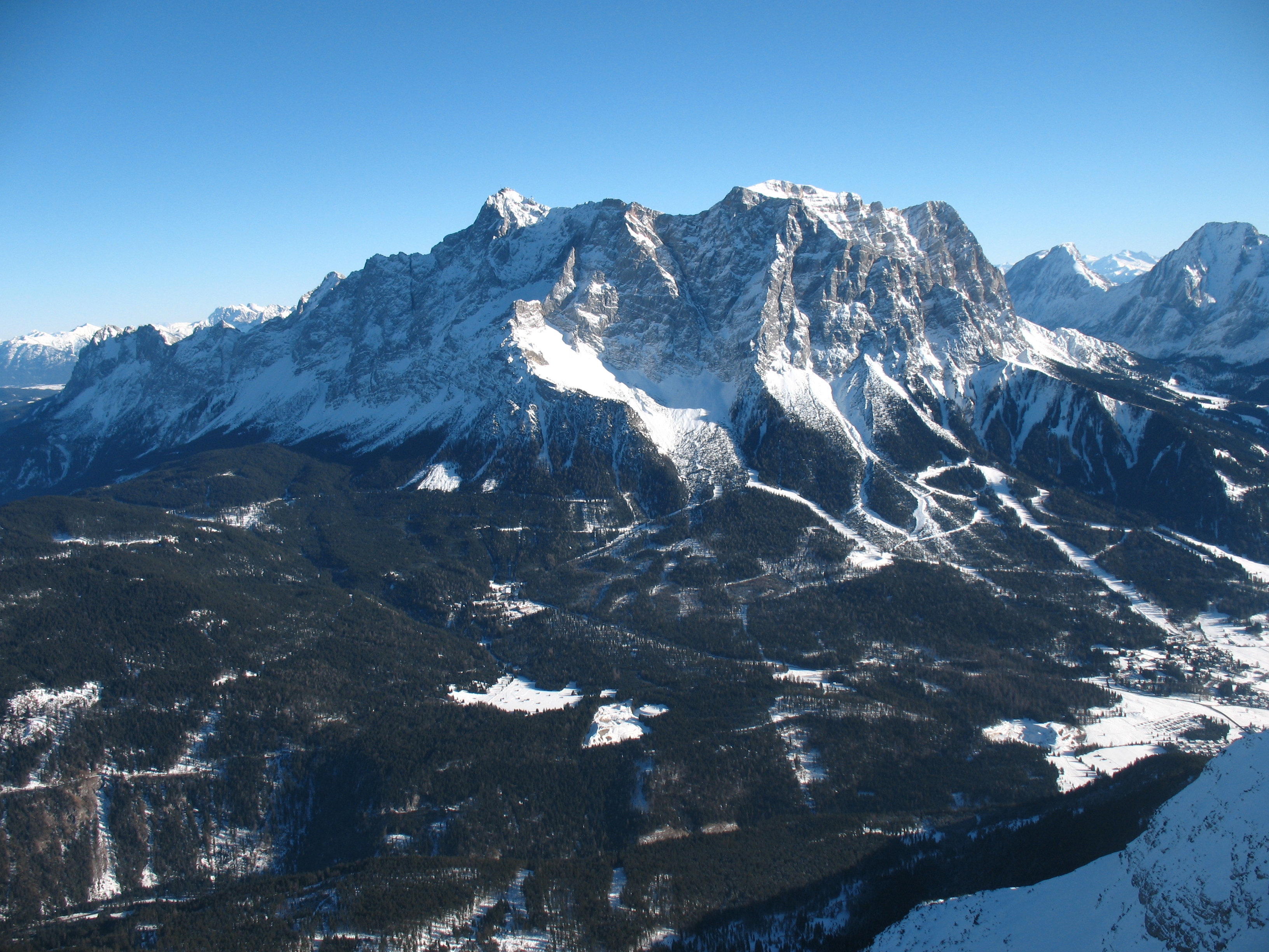 Westside of Zugspitzmassif as seen from the mountain “Daniel” in winter. Zugspitze (peak in the middle), subsummit Schneefernerkopf (right) and the ridge to Waxenstein (left).